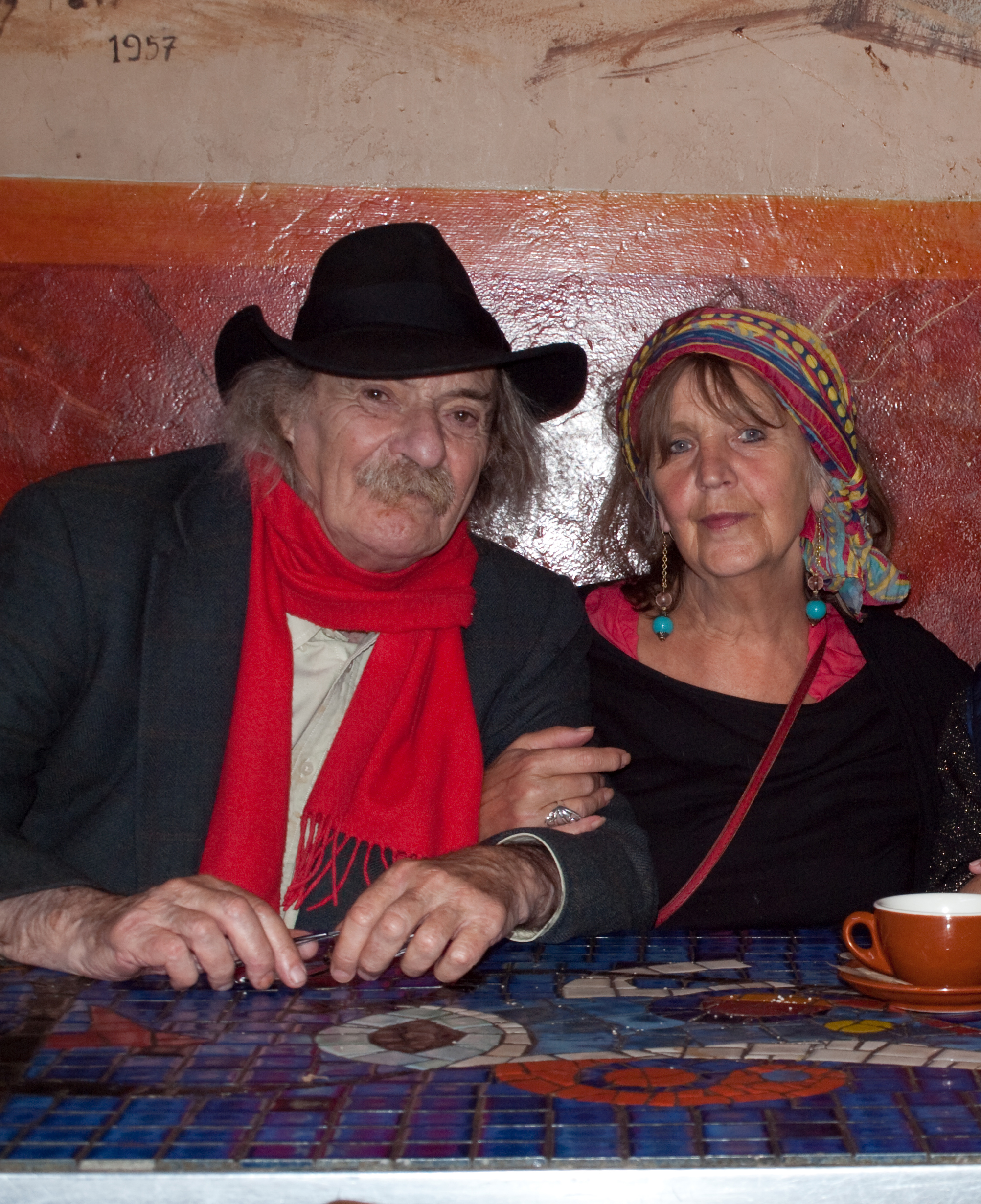 Jack Hirschman and Agneta Falk at Caffe Trieste - San Francisco, 30 July 2013